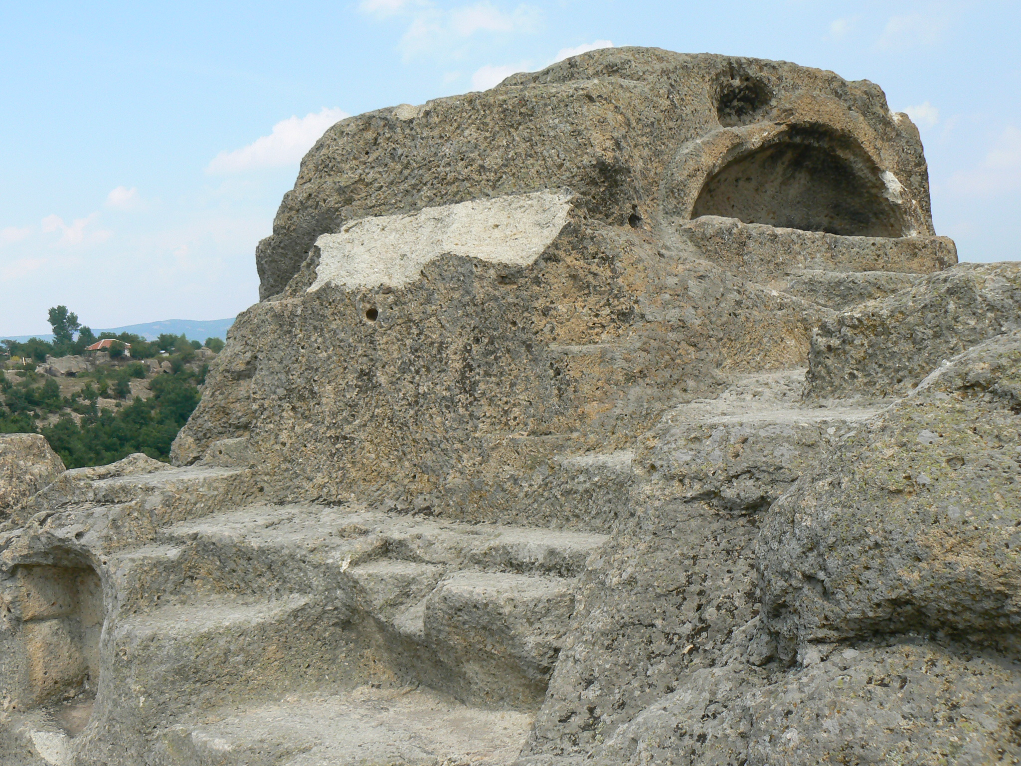 The presumable tomb of the famous Thracian singer Orpheus in a stone sarcophagus at the sanctuary near the village of Tatul.